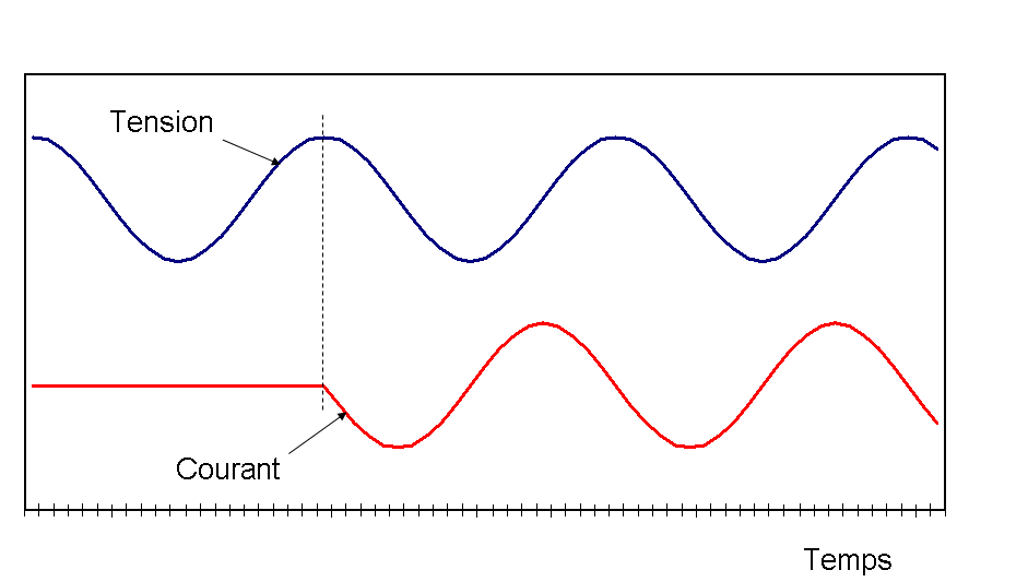 Symmetrical currentwhen a fault occurs at maximum voltage in a network